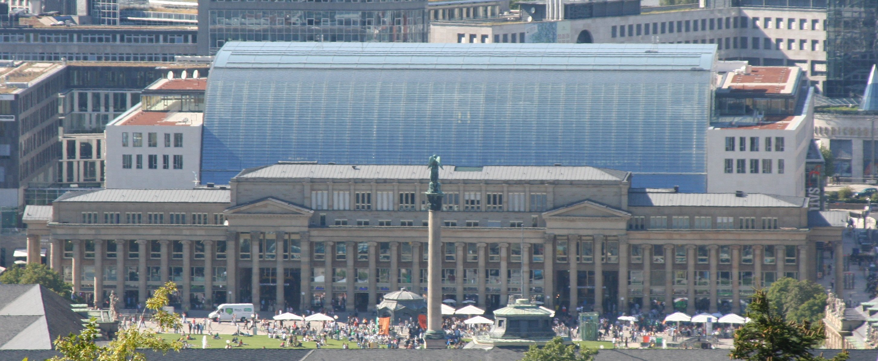 The Königsbau in Stuttgart, photographed from Stuttgart-Gänsheide (close to the tram stop Bubenbad)